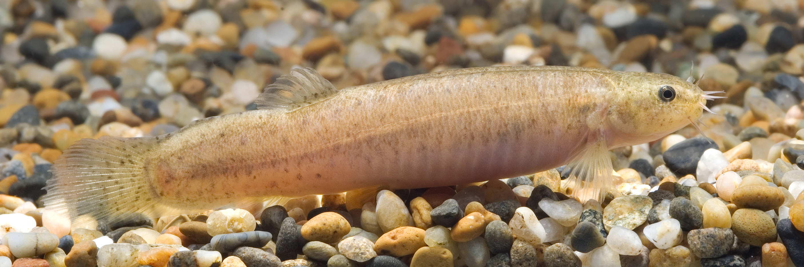 Hotokedojo, Lefua echigonia